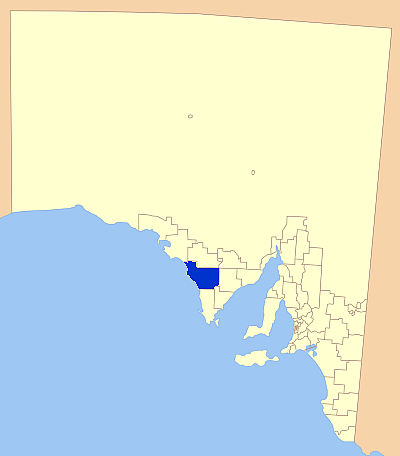 Modification of Astrokey44's original map found here: File:SA_LGA_blank.png Position of Coober pedy LGA